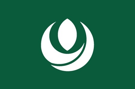 Flag of Kurihara Miyagi